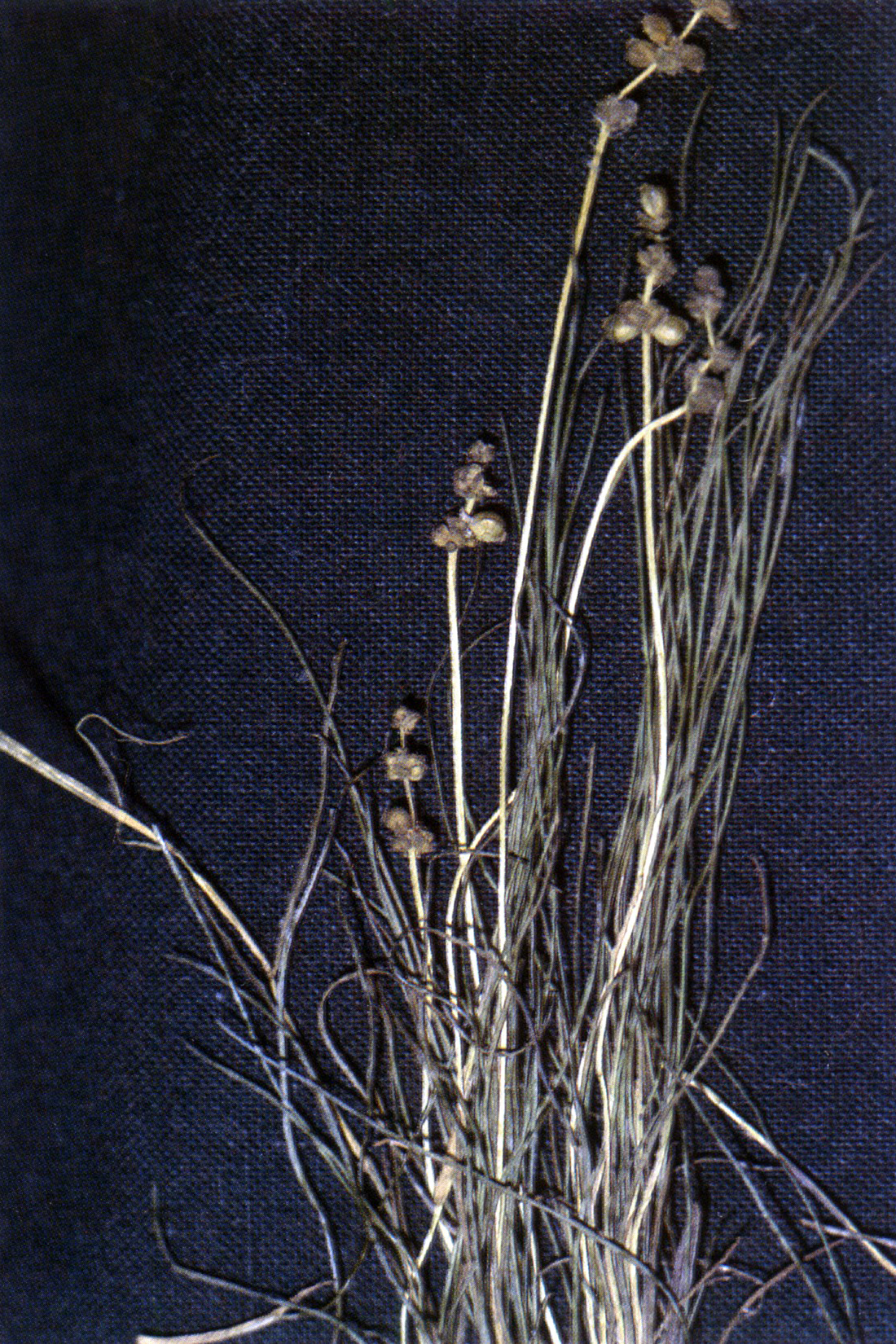 Stuckenia filiformis (Pers.) Börner ssp. filiformis - fineleaf pondweed